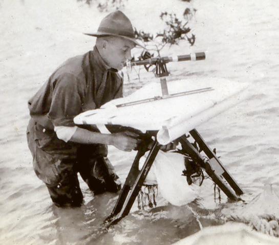 Plane table set up in the water. Crew off of SIALIA. Near Miami, Florida.